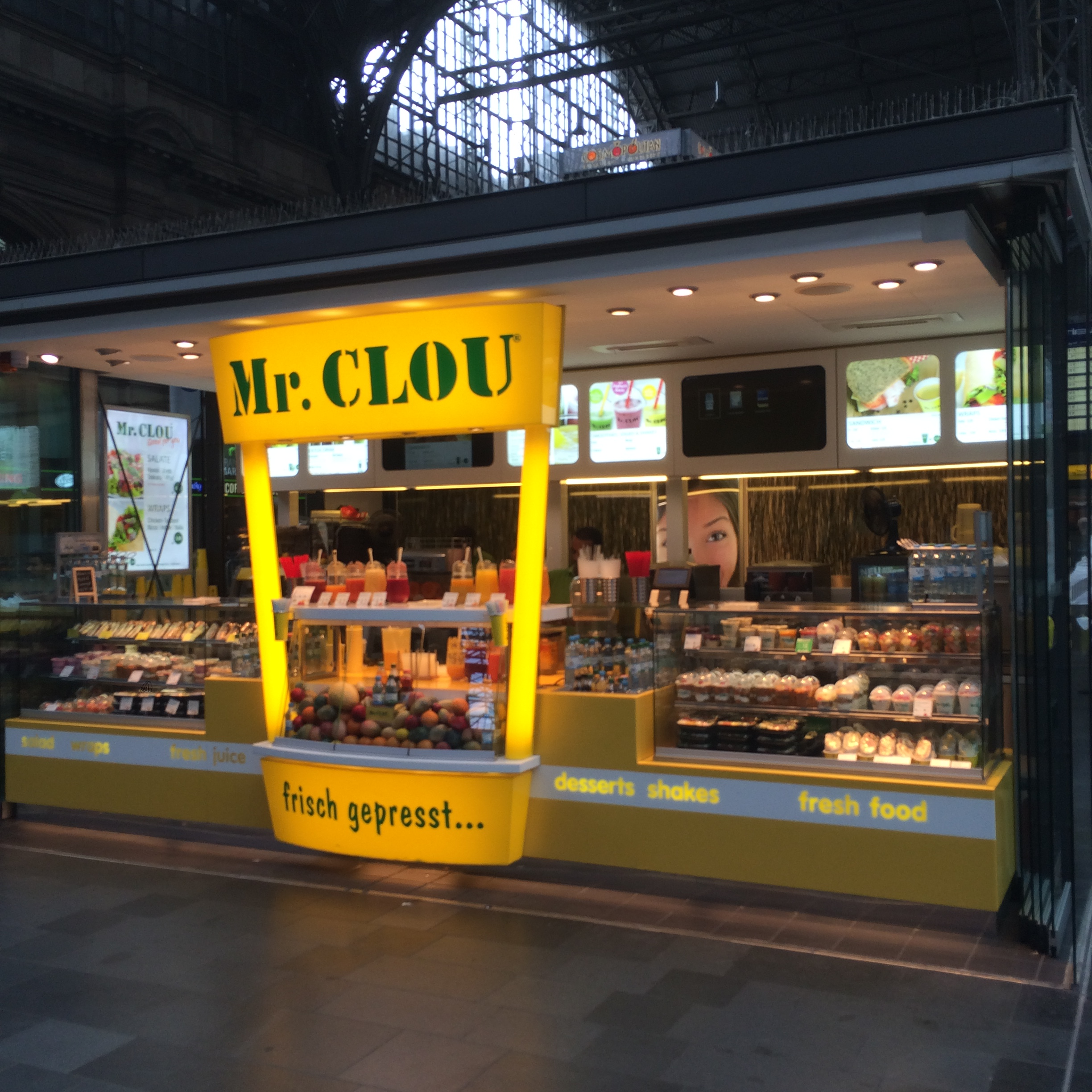 Mr. Clou